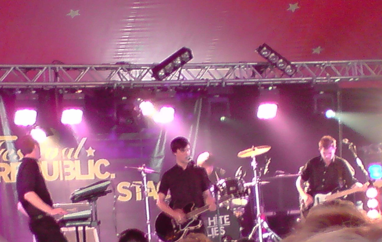 Image of [1] playing at the Reading Festival, 23 August 2008